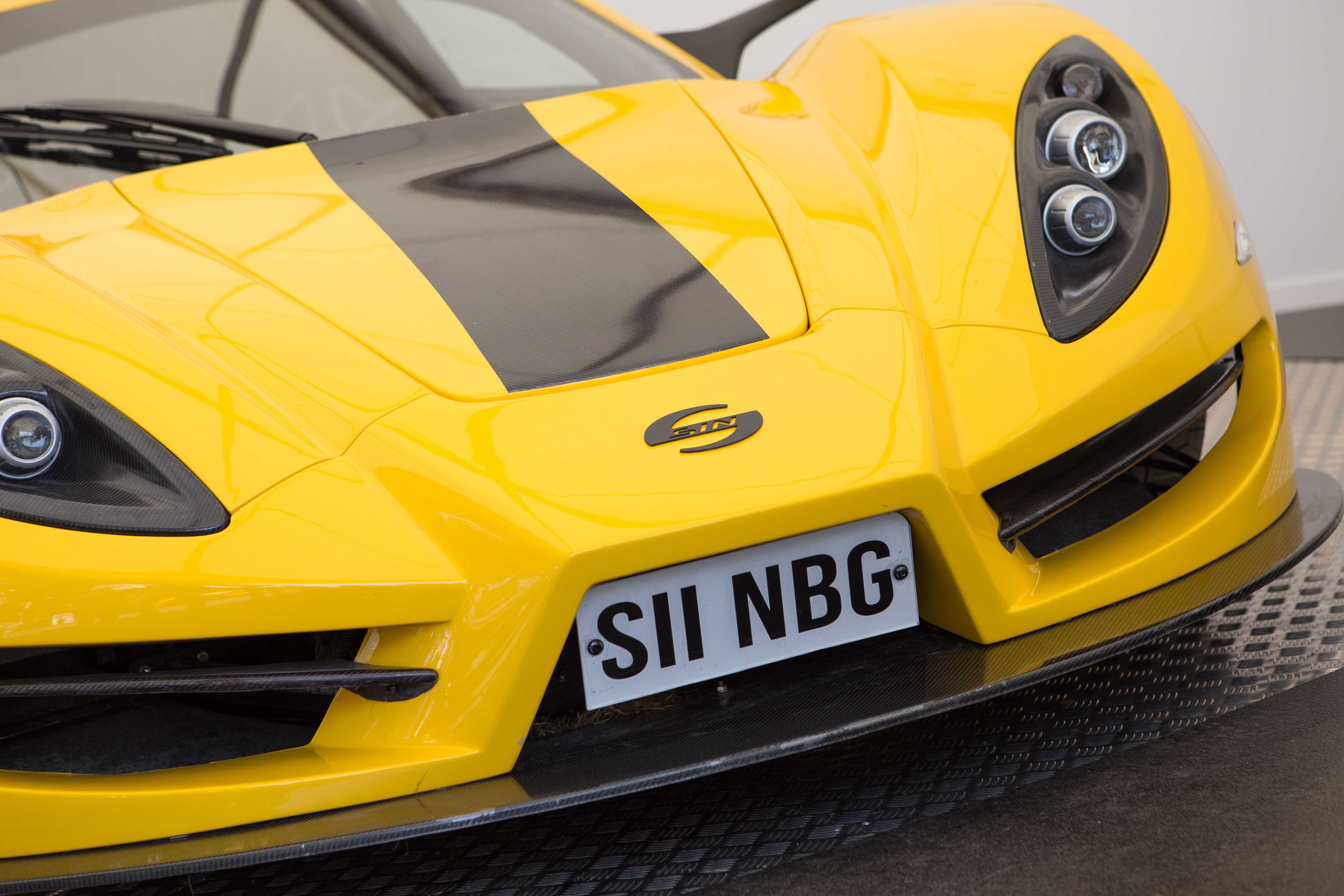 The Sin R1 at the 2014 Goodwood Festival of Speed.